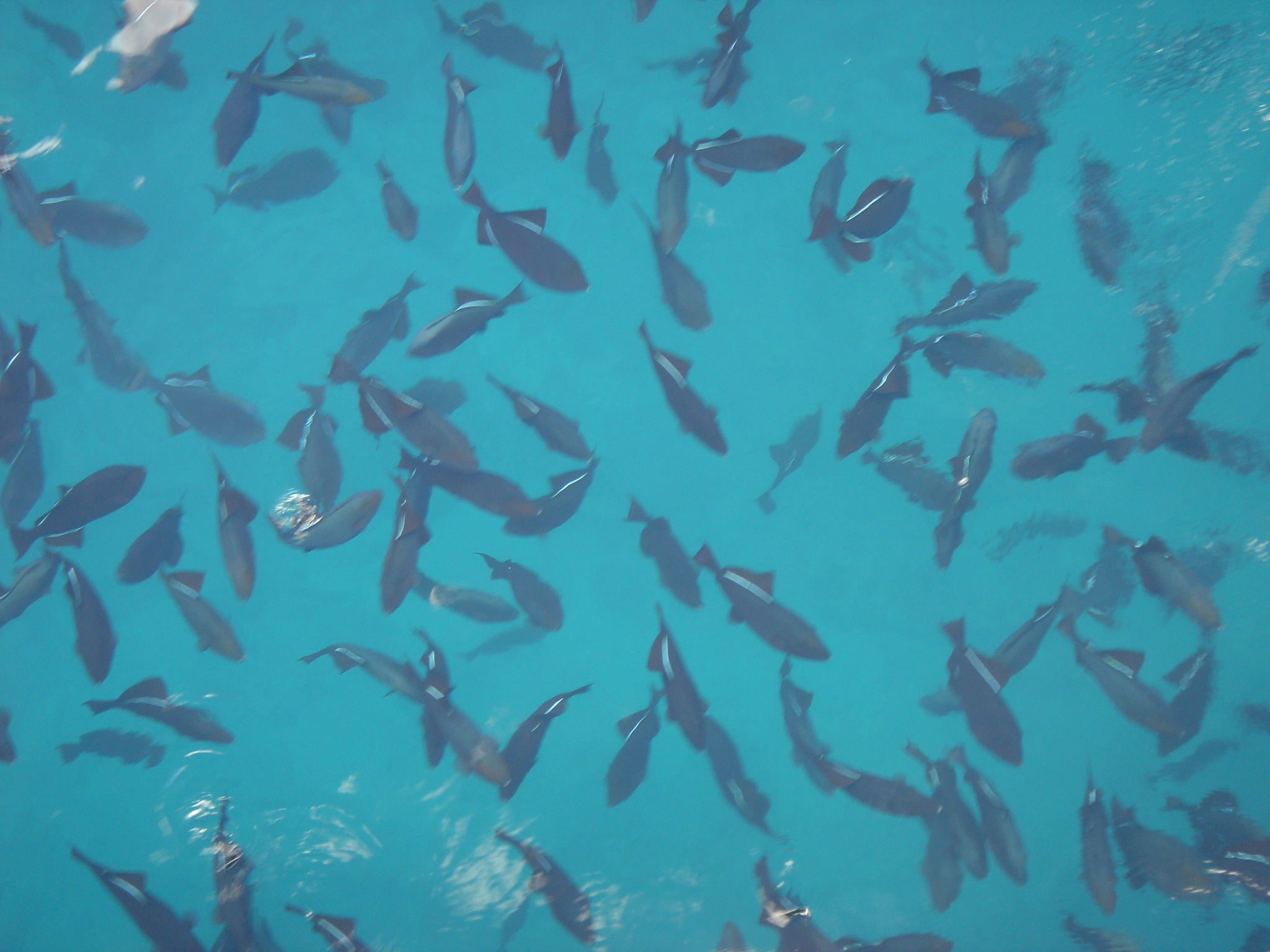 School of Black triggerfish (Melichthys niger) near Honolulu, Hawaii